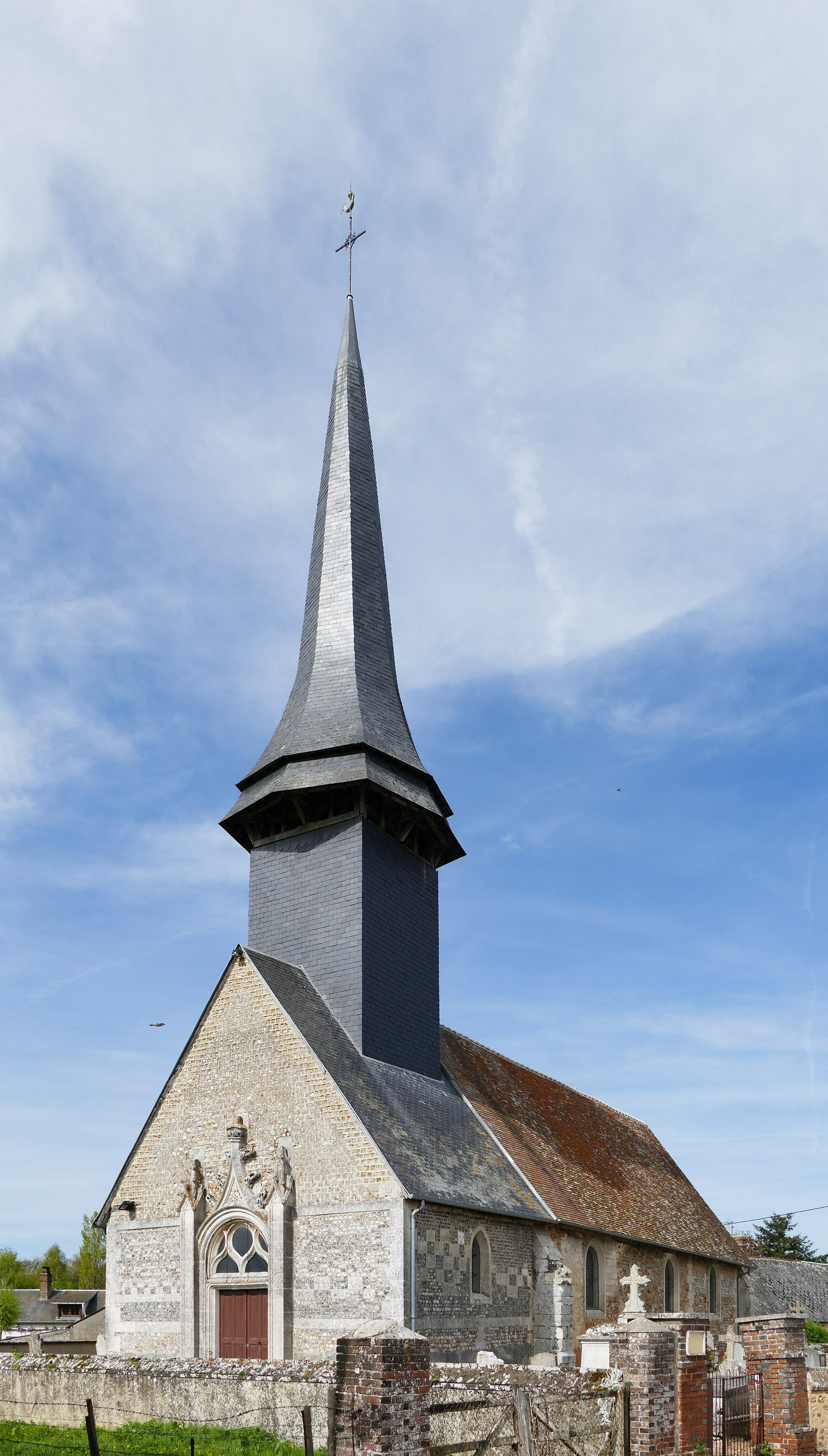 Our Lady's church in Orvaux (Eure, Normandie, France).